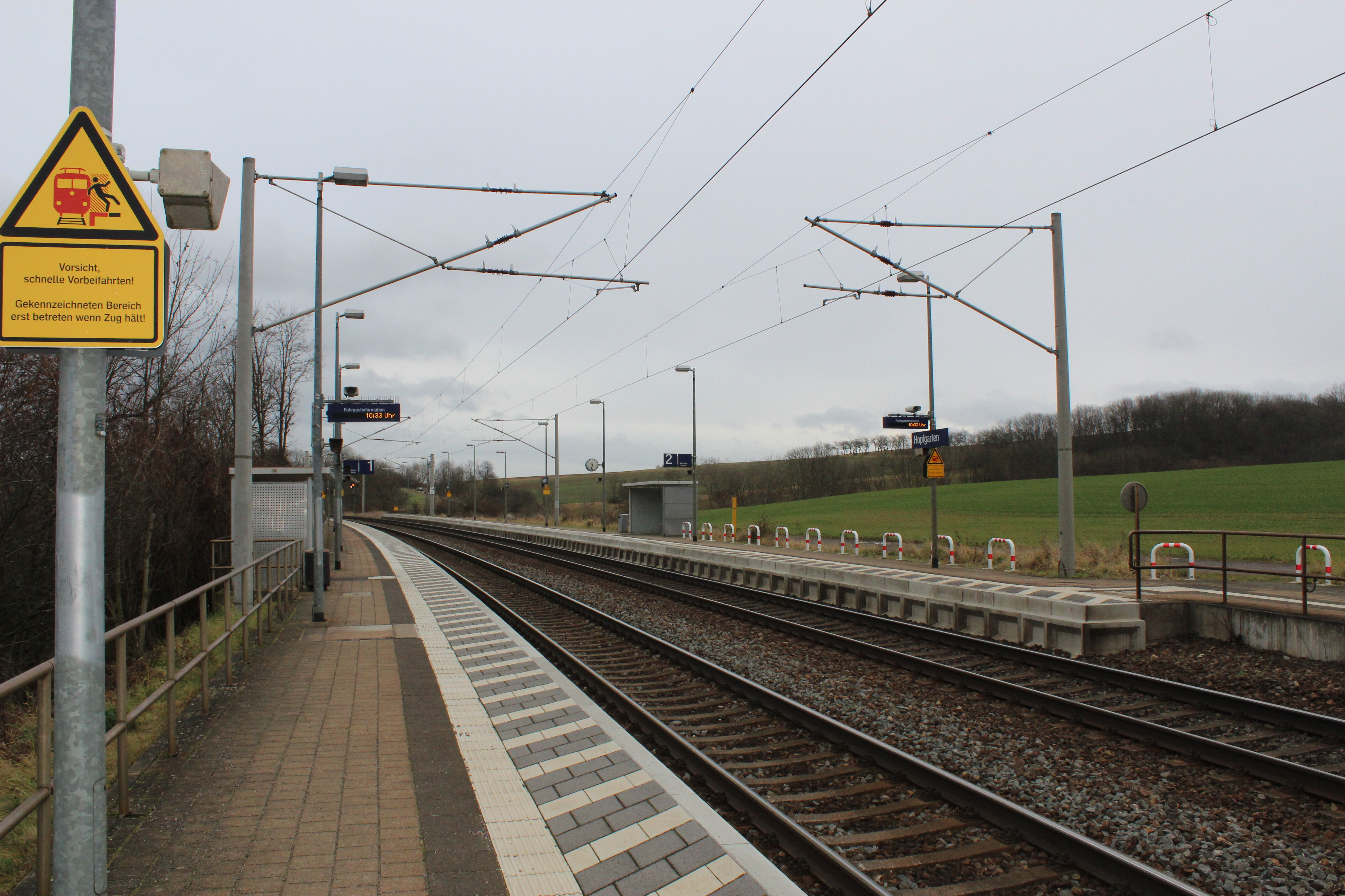 train station Hopfgarten (Weimar)